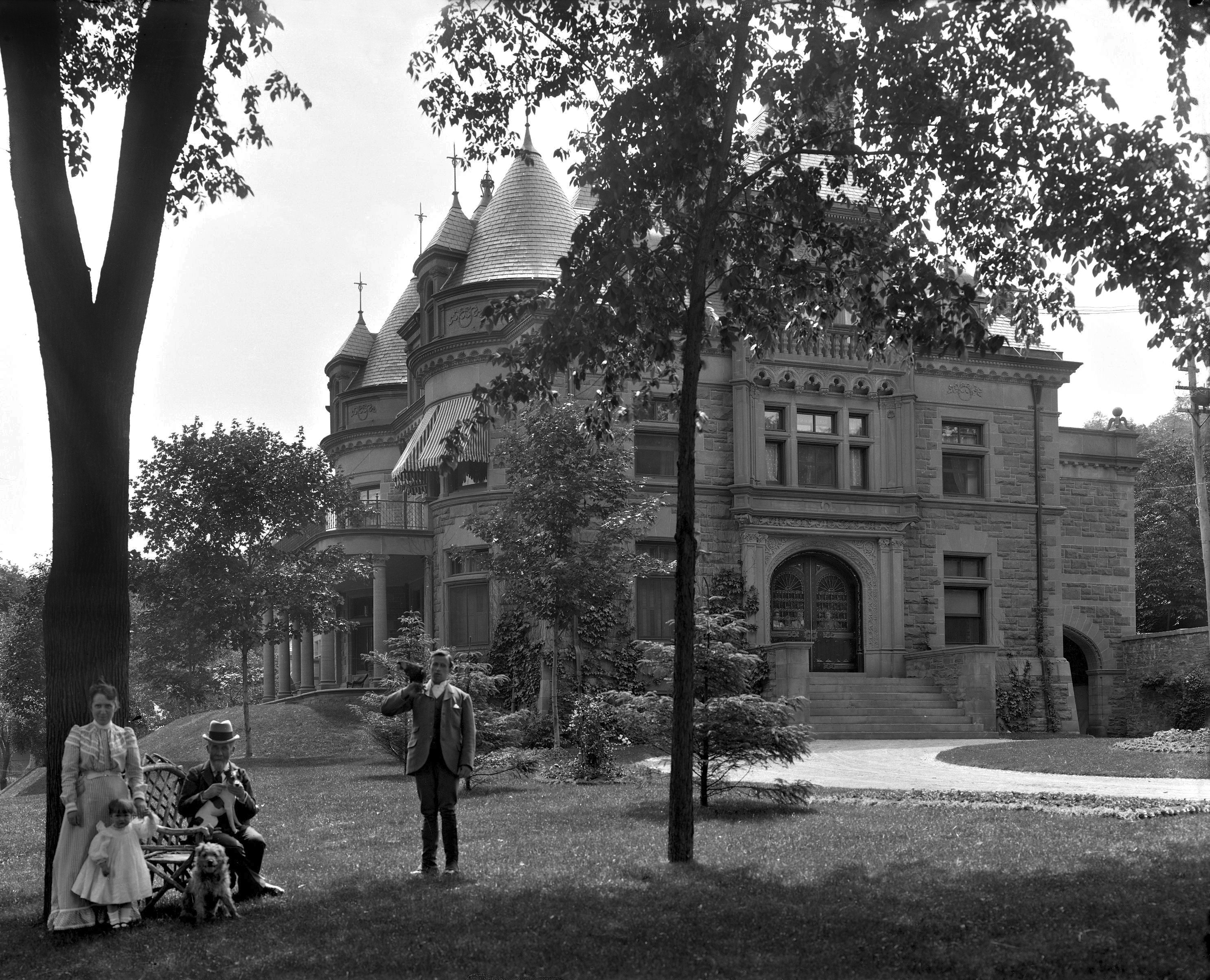 James Ross house, Peel Street, Montreal, QC, about 1910 Wm. Notman & Son About 1910, 20th century Silver salts on glass - Gelatin dry plate process 20 x 25 cm Purchase from Associated Screen News Ltd. VIEW-8715 © McCord Museum